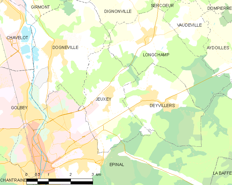 Map of French municipality Jeuxey